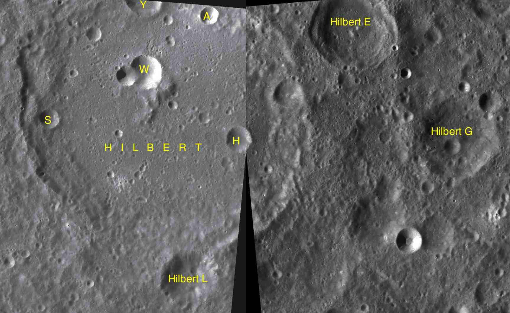 Parts of the charts LAC-100, LAC-101 used for the presentation